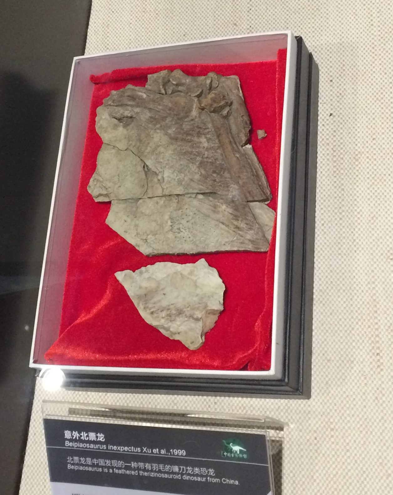 Beipiaosaurus feathers on display at the Paleozoological Museum of China.